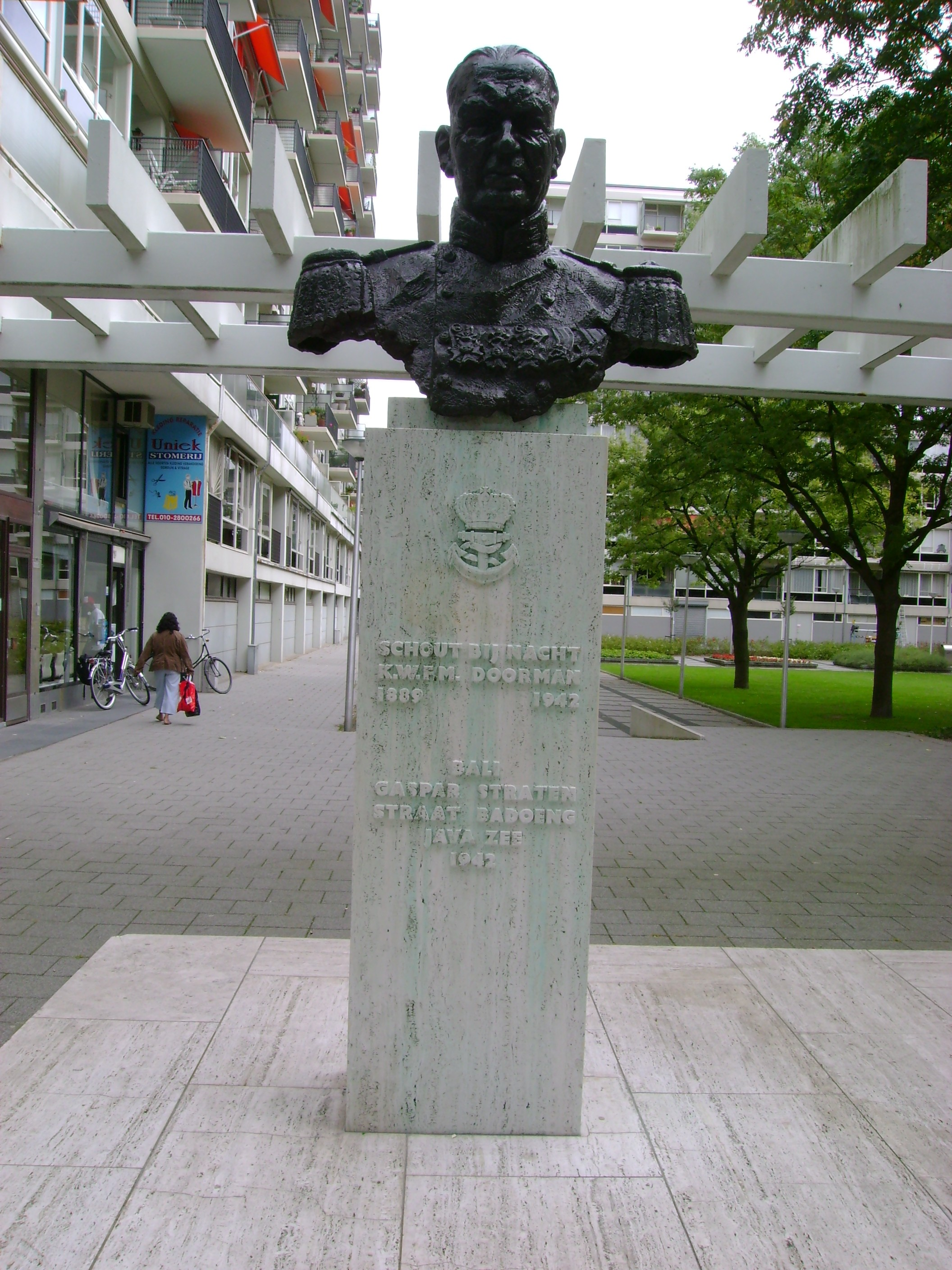 sculpture/bust "Karel Doorman" by Willem Verbon in Rotterdam/The Netherlands